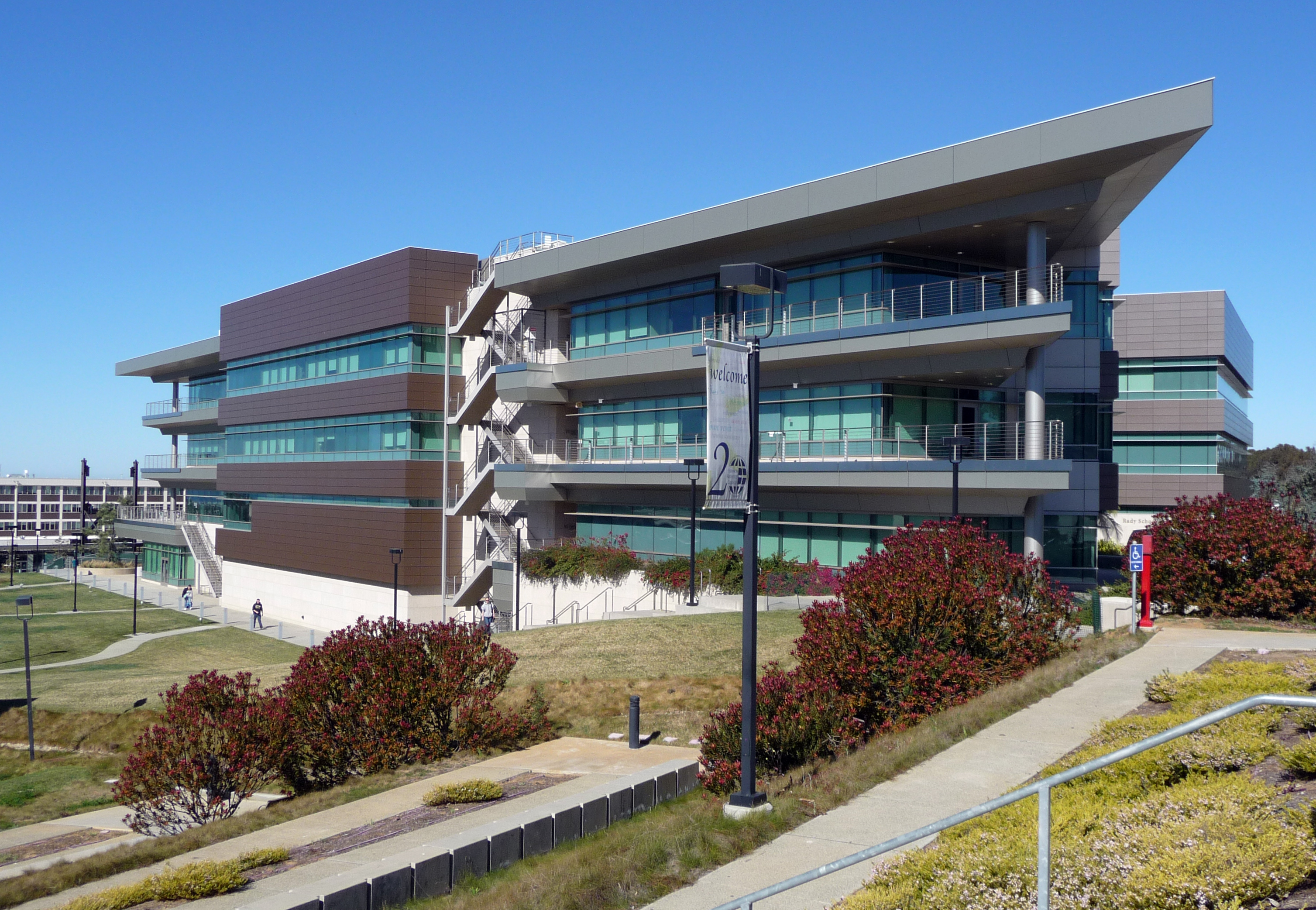 The Rady School of Management in Roosevelt College at UCSD.